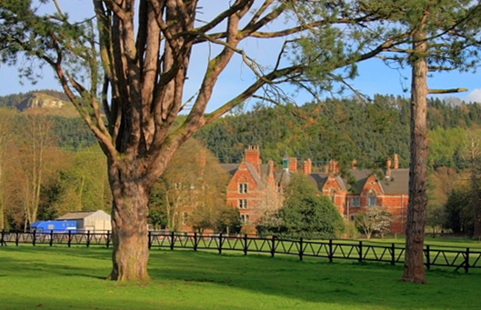 Hutton Hall Designed by the architect Alfred Waterhouse for Sir Joseph Pease, a nineteenth century Teesside ironmaster and industrialist.